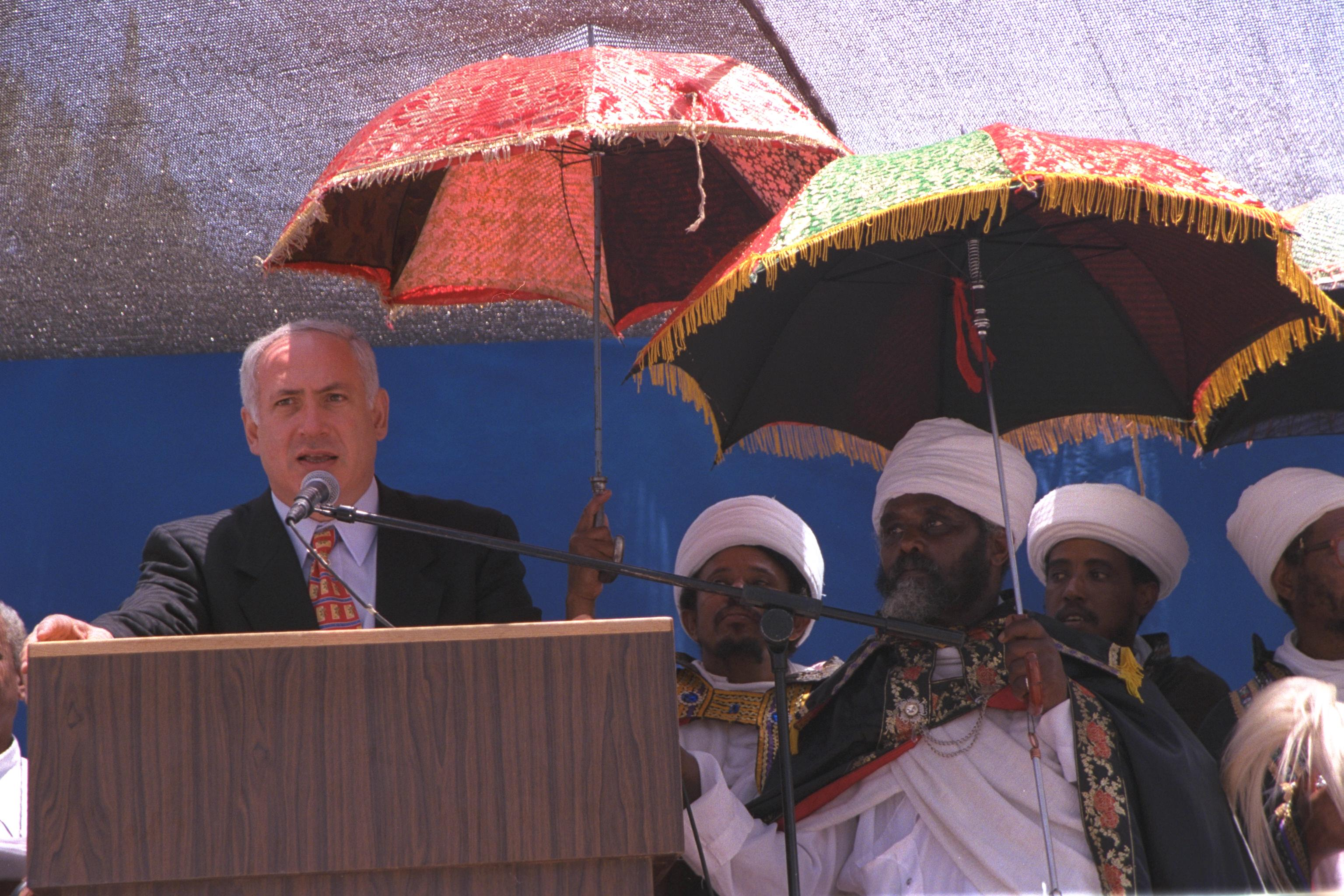 A memorial service of ethiopian immigrants, in honor of their friends who died on their way to israel. In photo, PM Netanyahuspeaking at the service. טקס זיכרון לעולי העדה האתיופית שנהרגו בדרכם לארץ Photo: AMOS BEN GERSHOM: GPO. 24/05/1998.